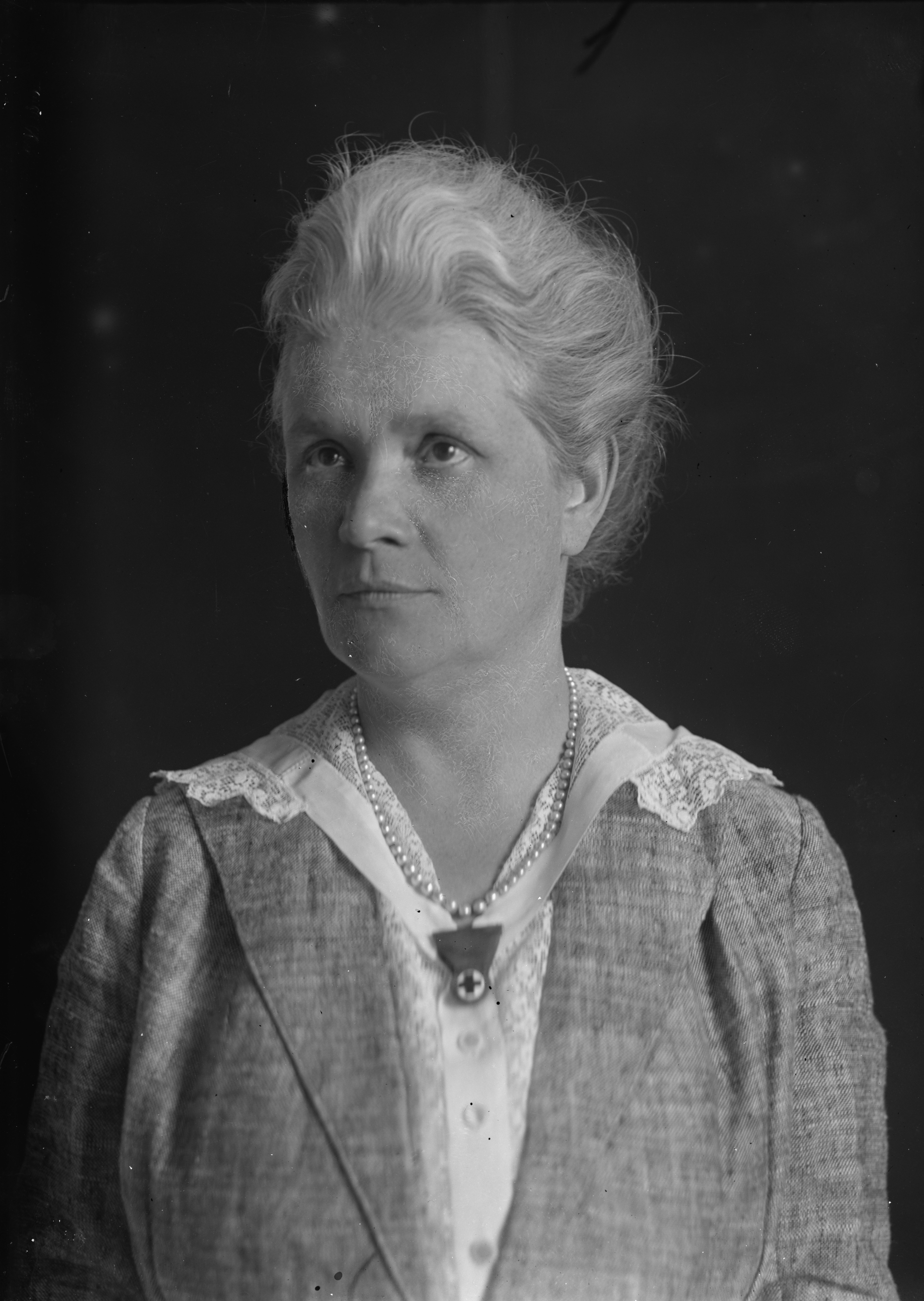 Margaret Chanler Aldrich (Mrs. Richard Aldrich), Assistant Director of Publicity, American Red Cross